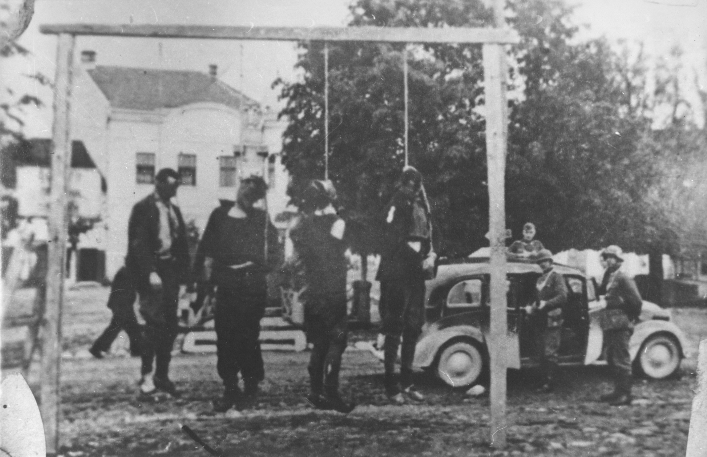 Public hanging of Serbian civilians by German troops in the village of Uzicka Pozega, Serbia.